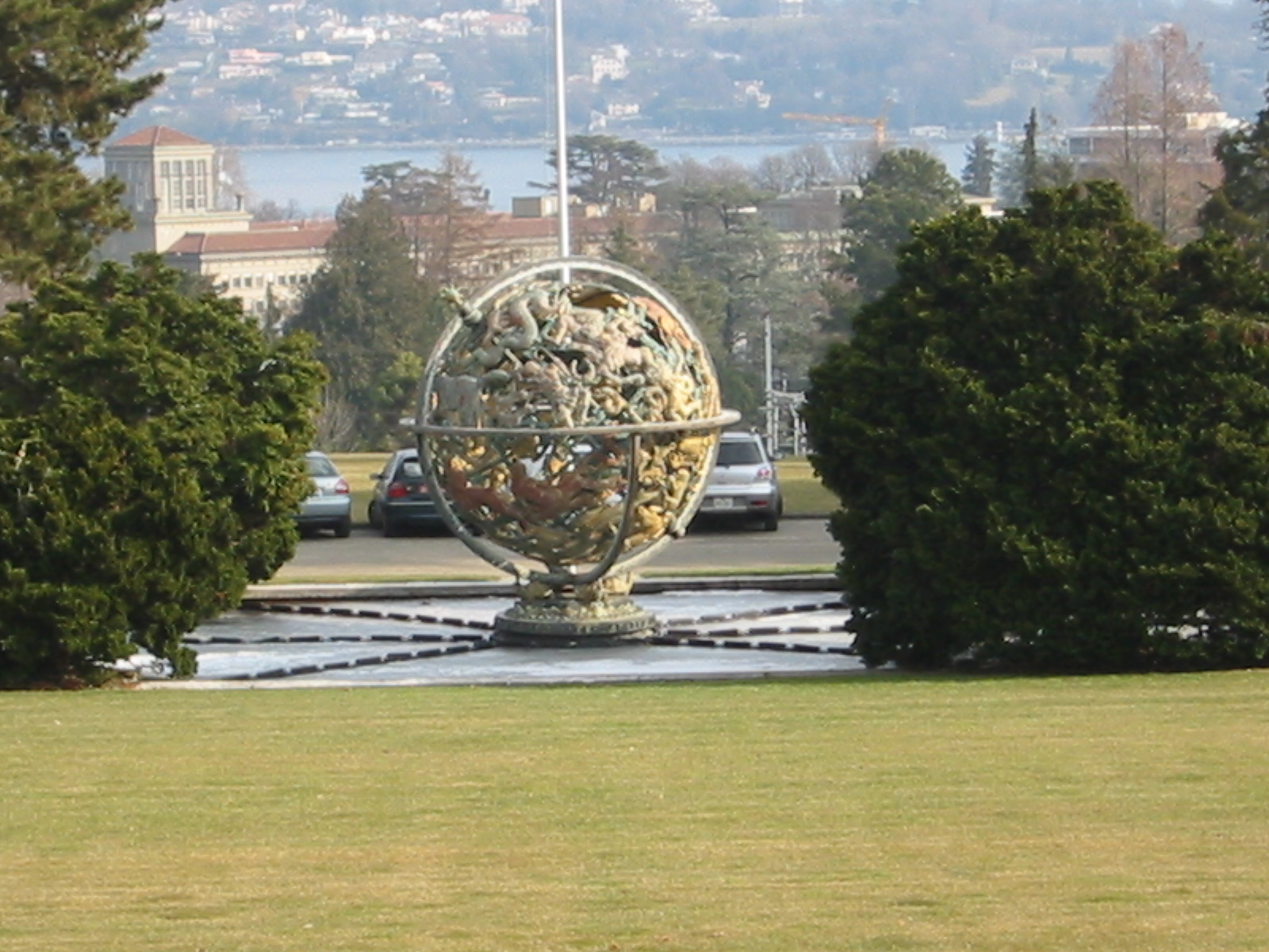 Garden of the UNO, Geneva.